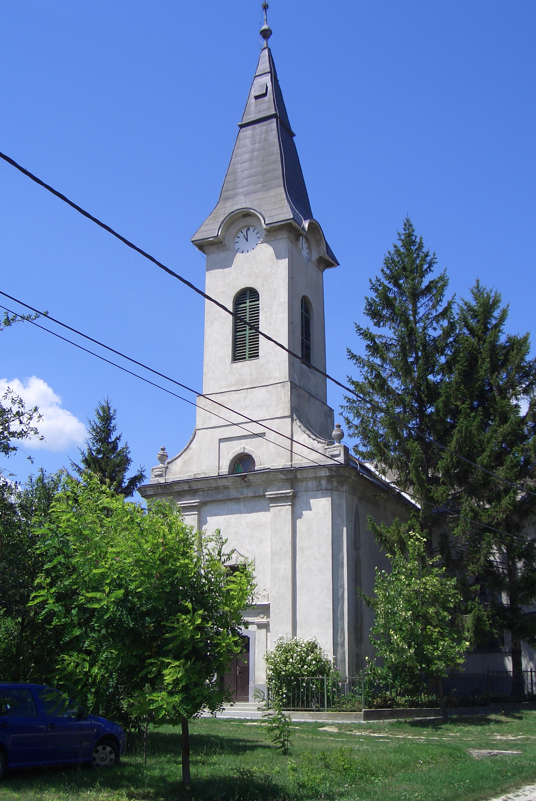 Reformed church in Csór, Fejér County (Magyar utca /street)